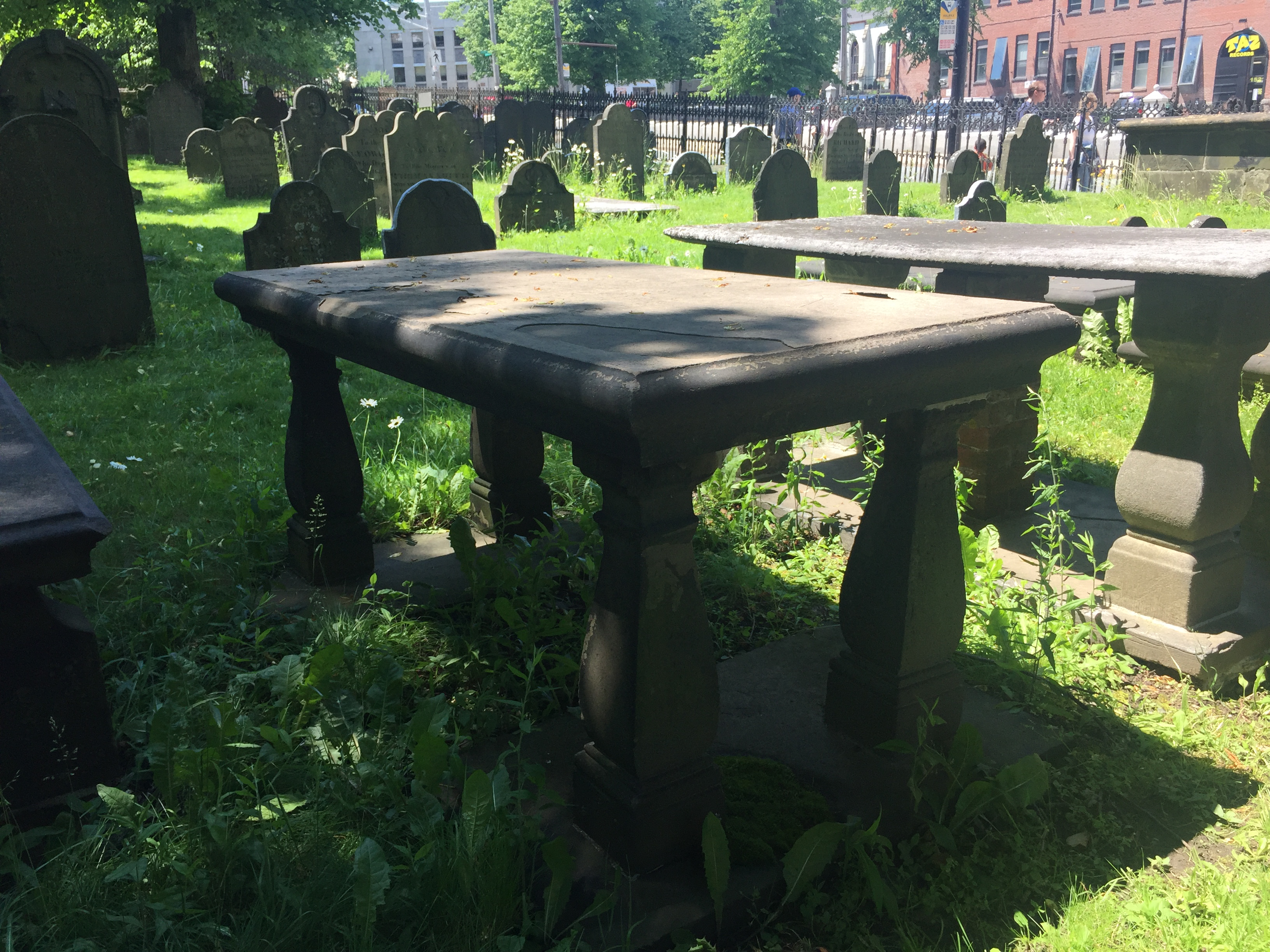 Lawrence Hartshorne, Old Burying Ground, Halifax, Nova Scotia, Canada